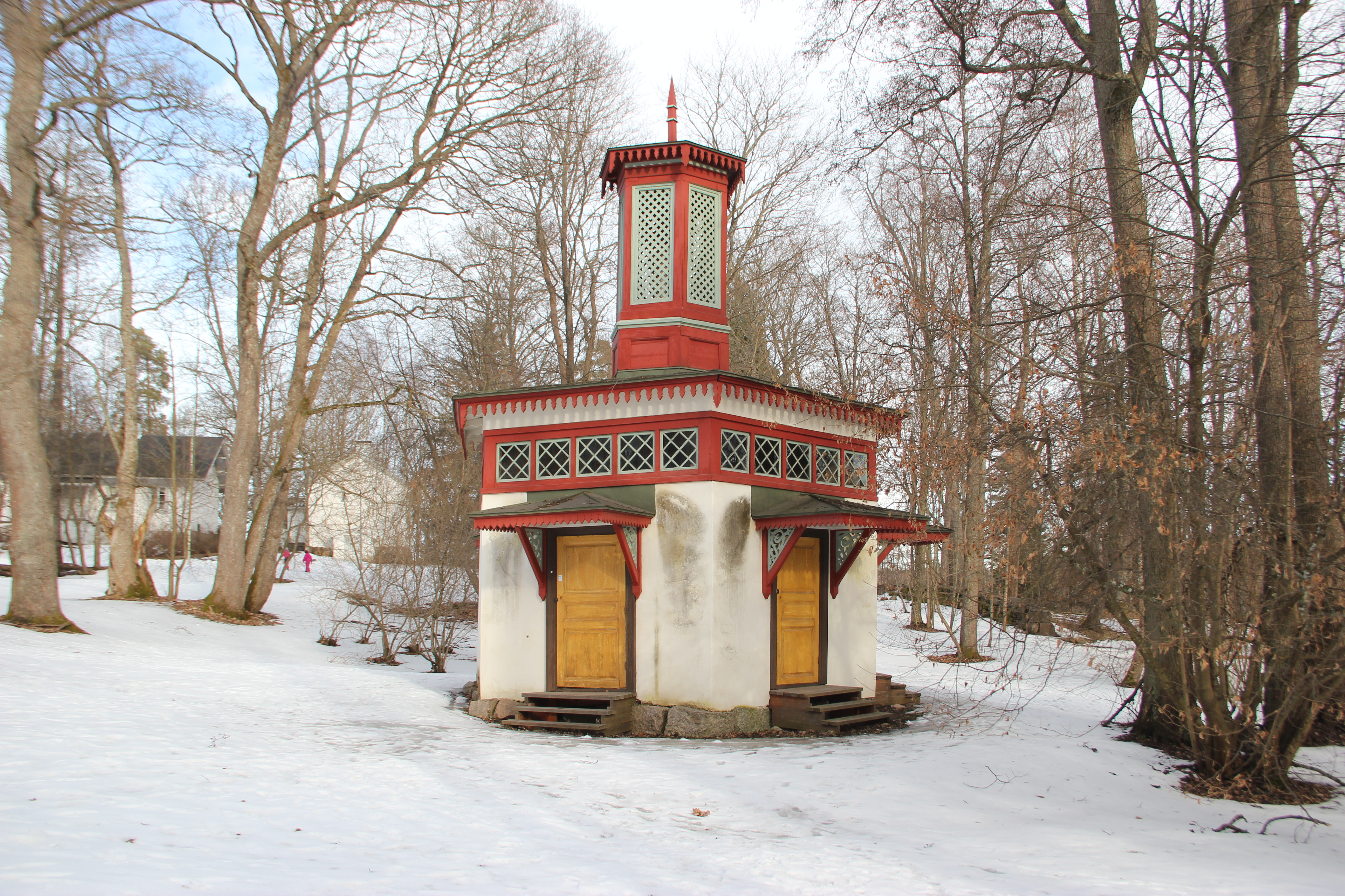 Place of accomodation erected for a visit by czar Alexander II of Russia at Träskända manor. Architect: G. T. von Chiewitz